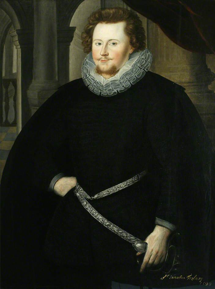 Portrait of Sir Jonathan Trelawny (1568-1604), High Sheriff of Cornwall.